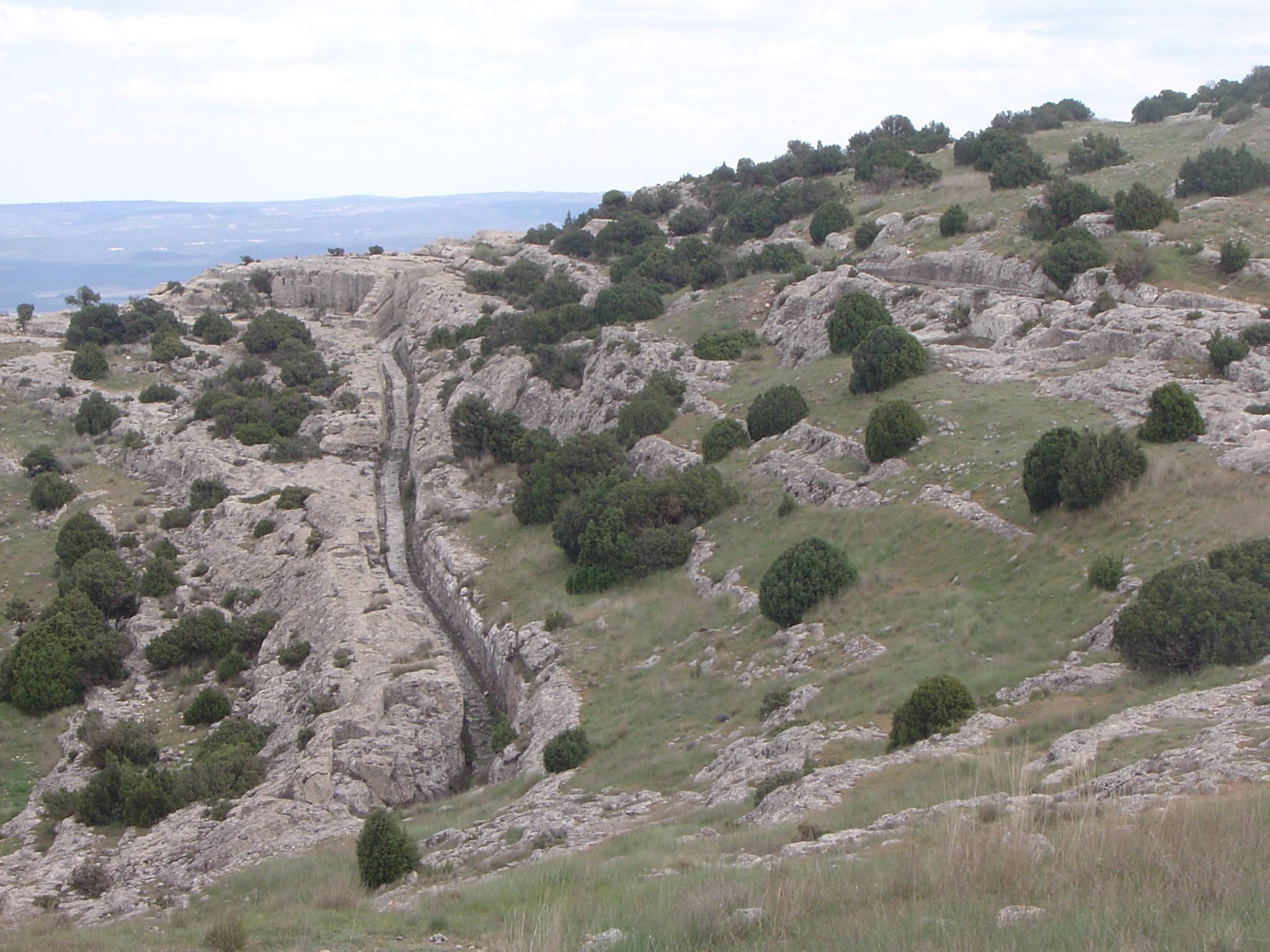 Way of access to the remainings of the iberic town of Castellar de Meca.